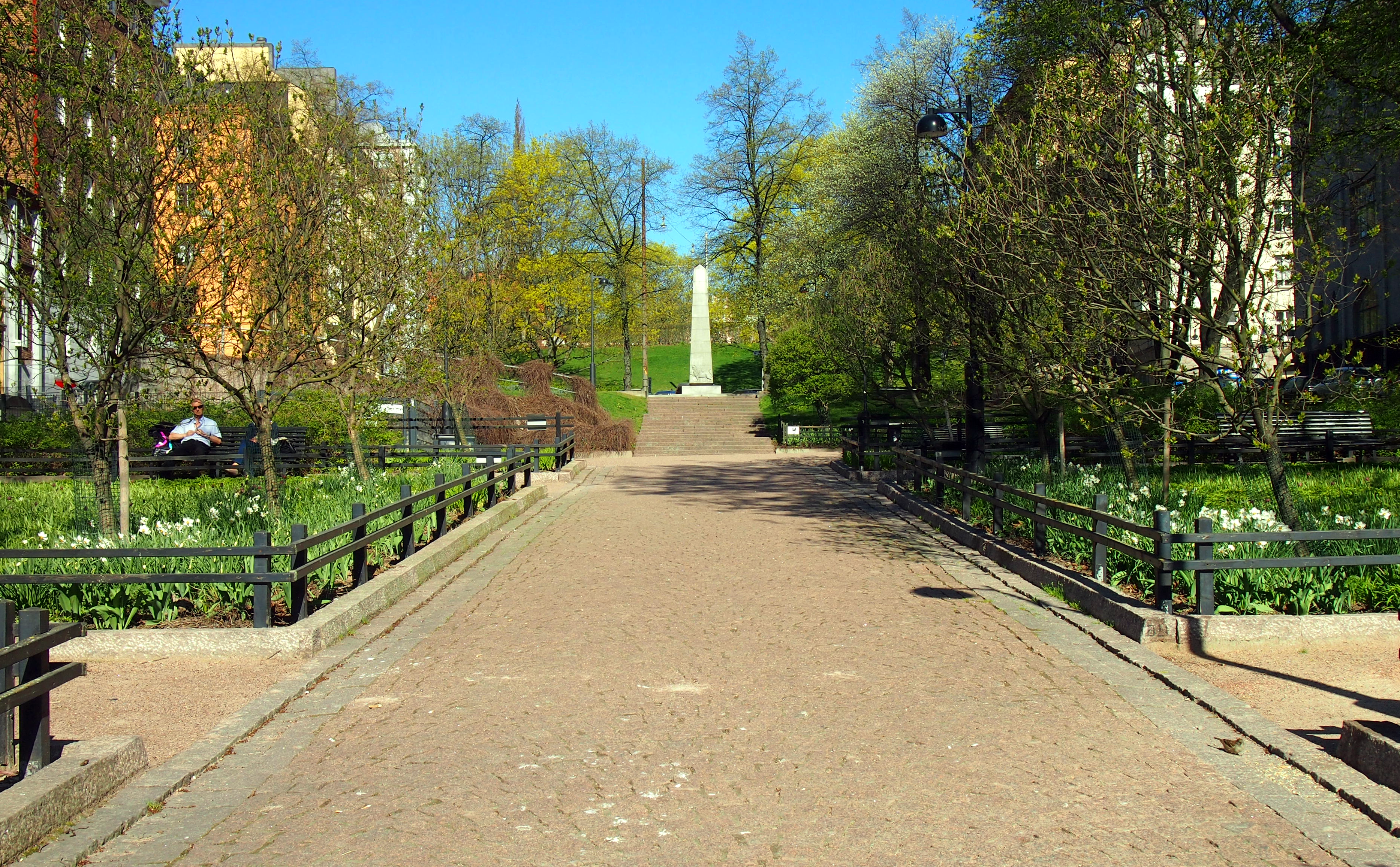 The park "Alli Tryggin puisto" in Helsinki, Finland. It lies in the district of Kallio by the street Hämeentie.